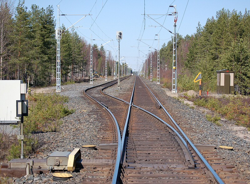 A railway turnout with electric throw, photographed at the east end of Pikkarala passing siding (crossing loop) in Oulu, Finland. This is a normal 1:9 (#9 frog) "short" turnout.